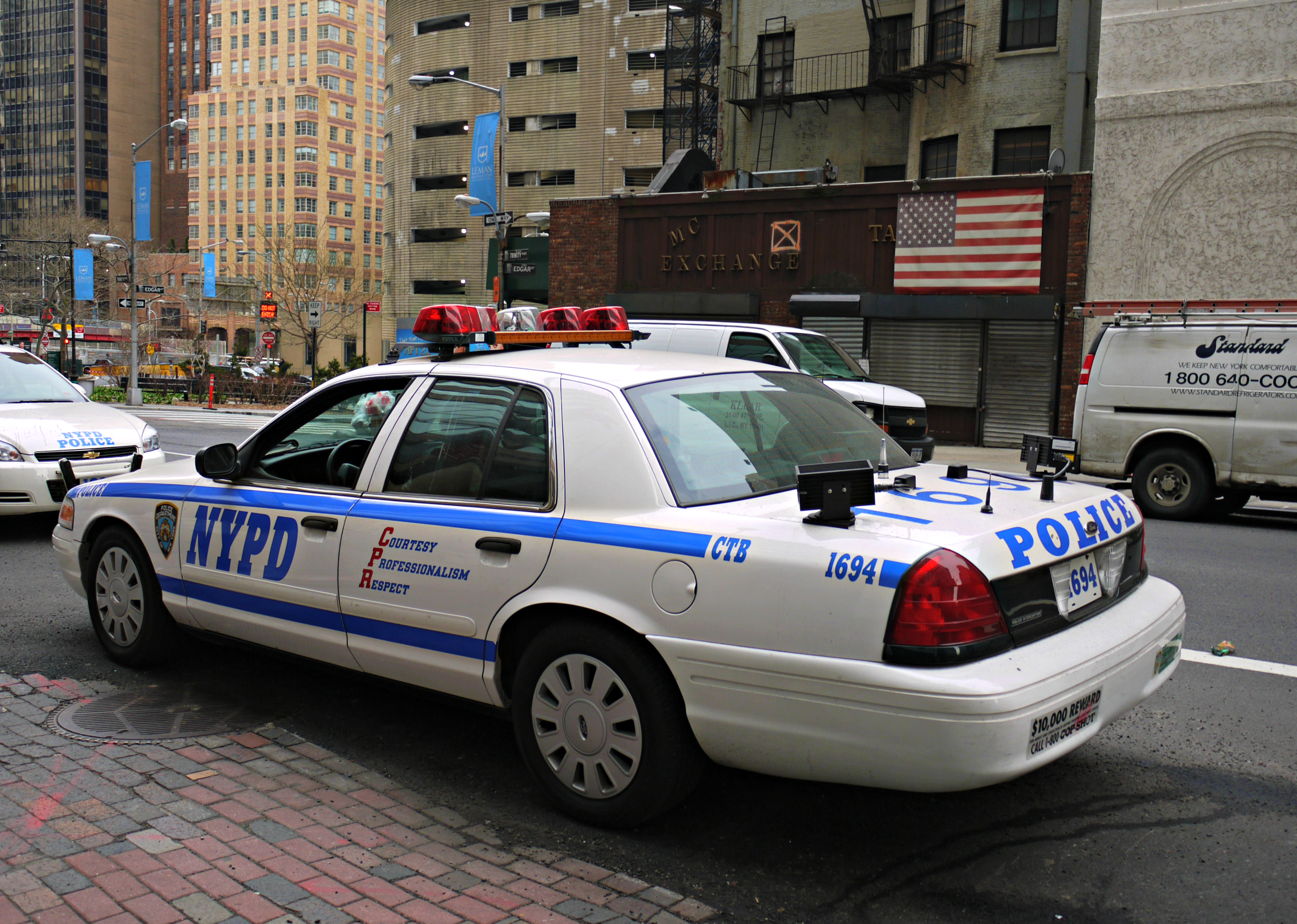 NYPD Ford Crown Victoria Police Interceptor.